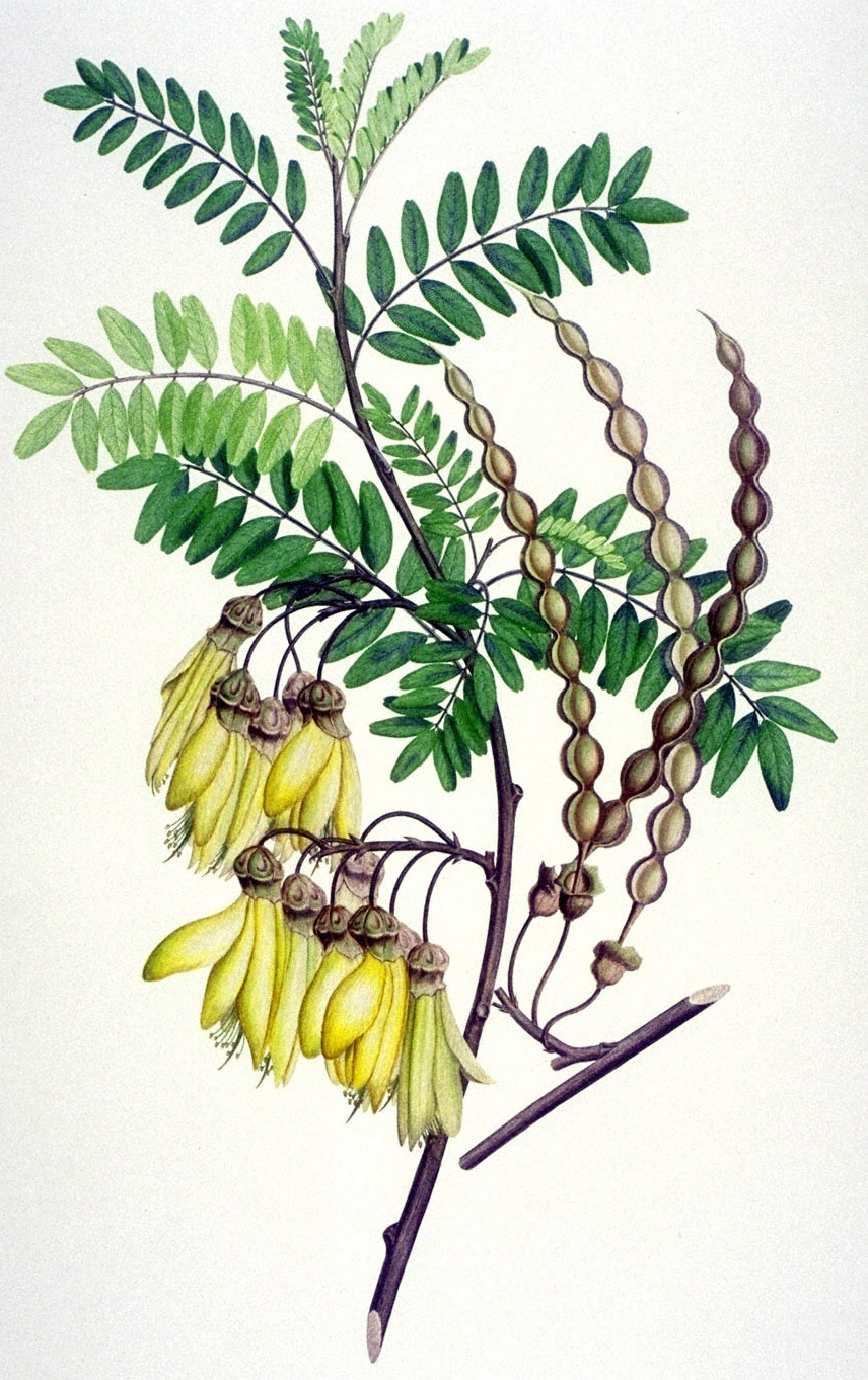 Kōwhai, Sophora tetraptera, collected at Tolaga Bay, New Zealand during the first voyage of Sir James Cook on the Endeavour. Coloured Engraving, Medium: Ink And Watercolours On Paper